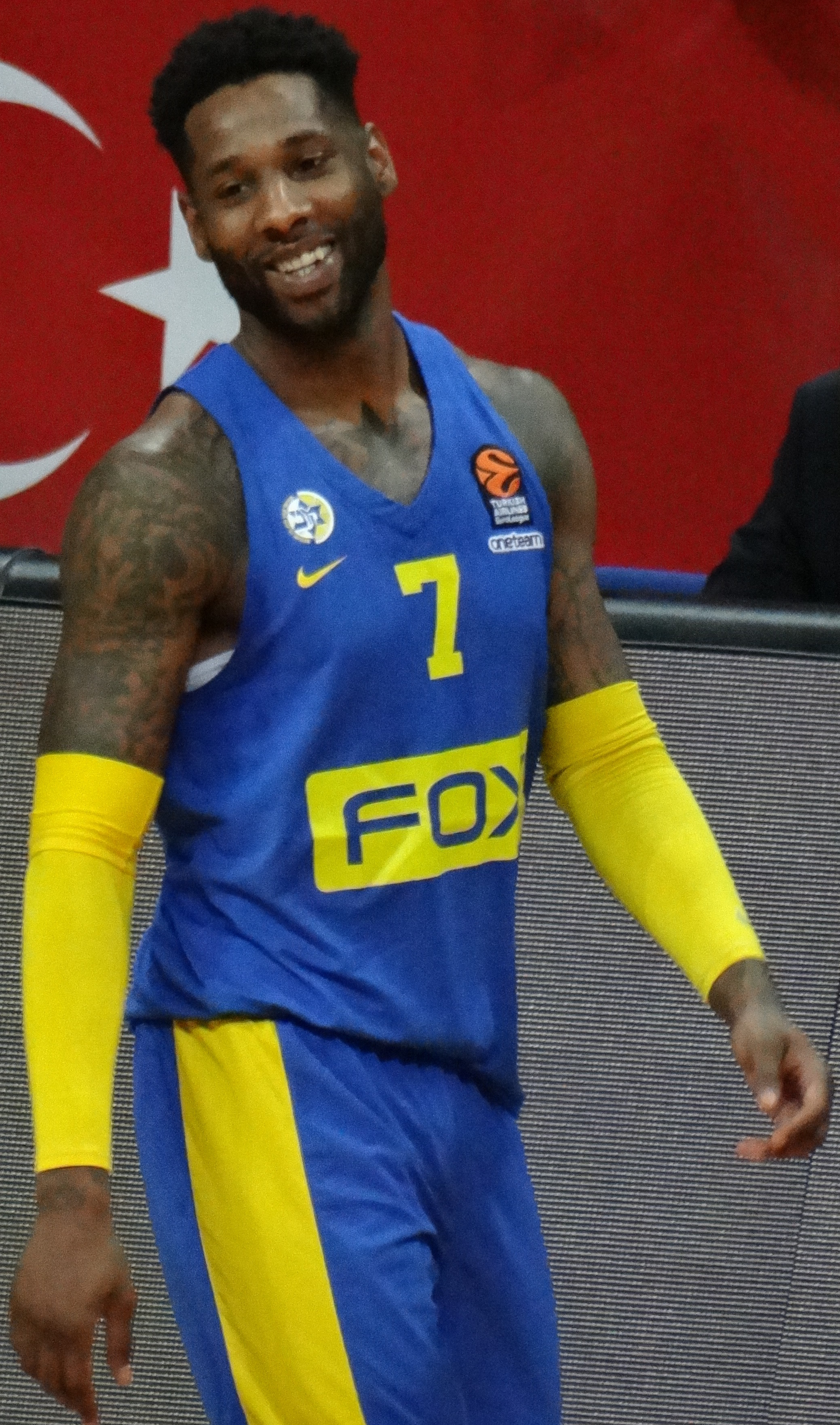 DeAndre Kane 7 Maccabi Tel Aviv B.C. EuroLeague 20180320